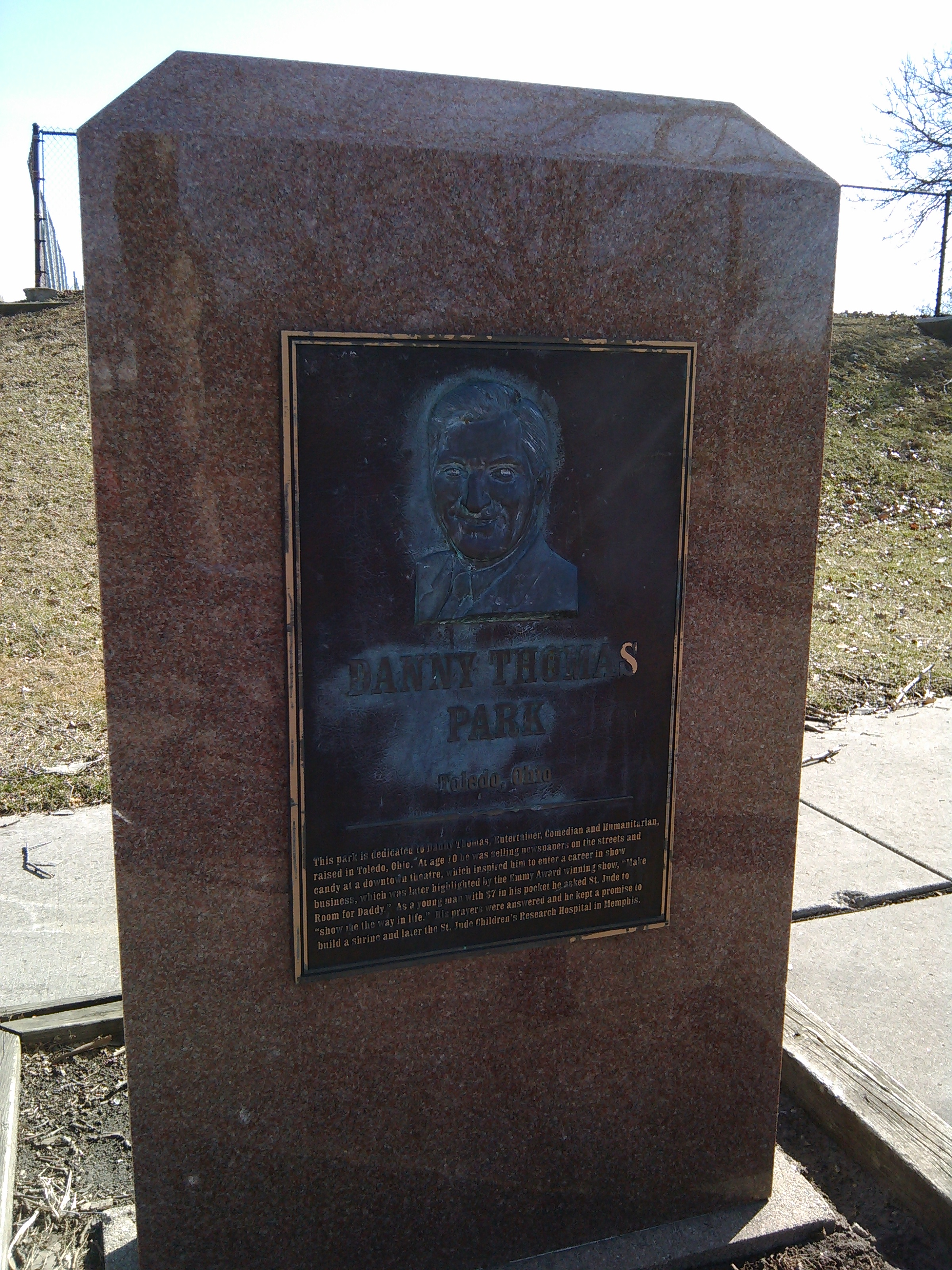 Monument at Danny Thomas Park in Toledo, OH, USA